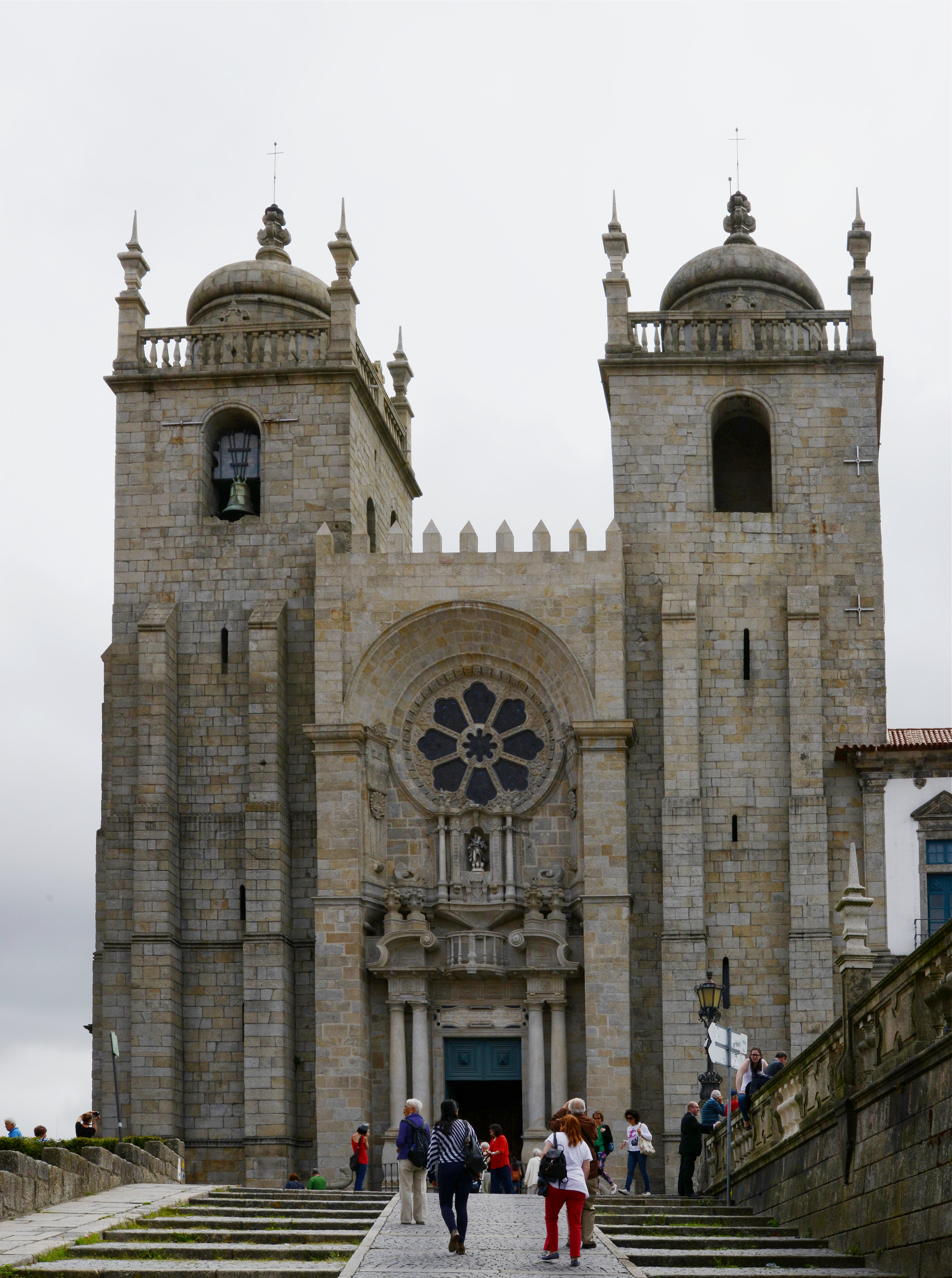 Porto, Sé Catedral